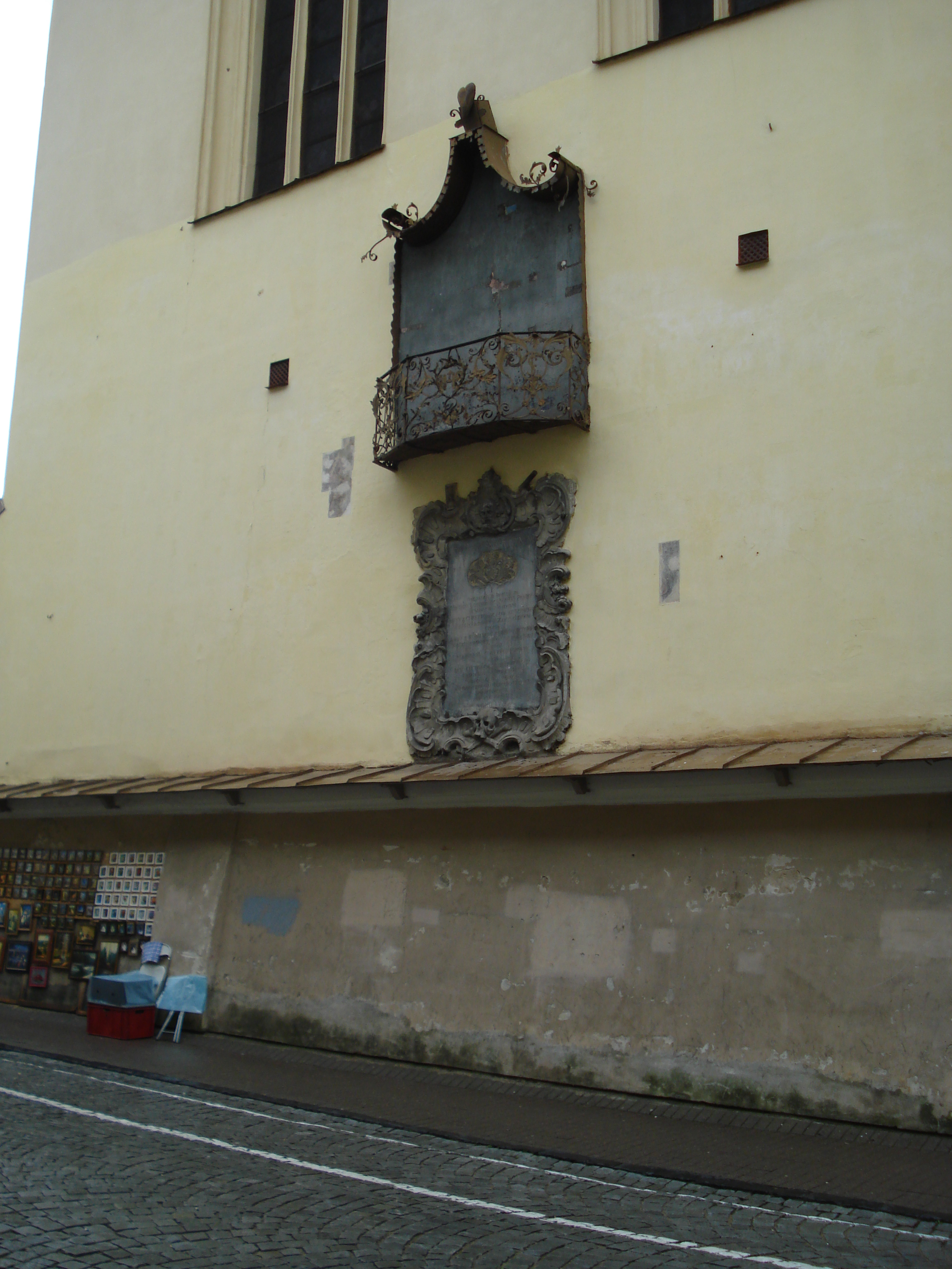 Church of St. Johns in Vilnius. Memorial plaque of Chreptowicz Family (1759), Pilies g.